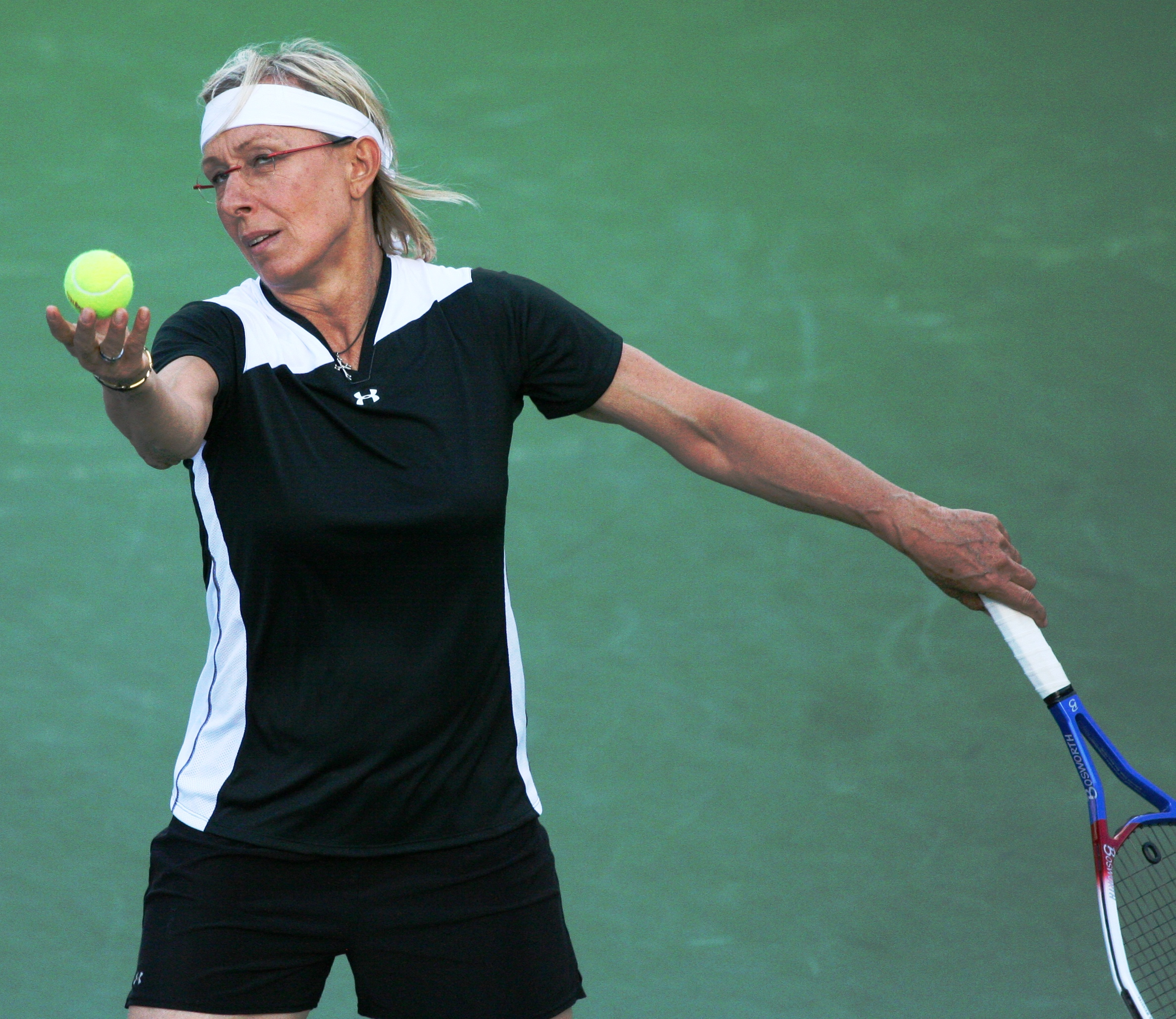 U.S. Open Champions Team Tennis Thursday, Sept. 9, 2010